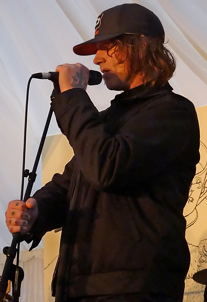 Mark Lanegan at the End of the Road festival, England, 2010